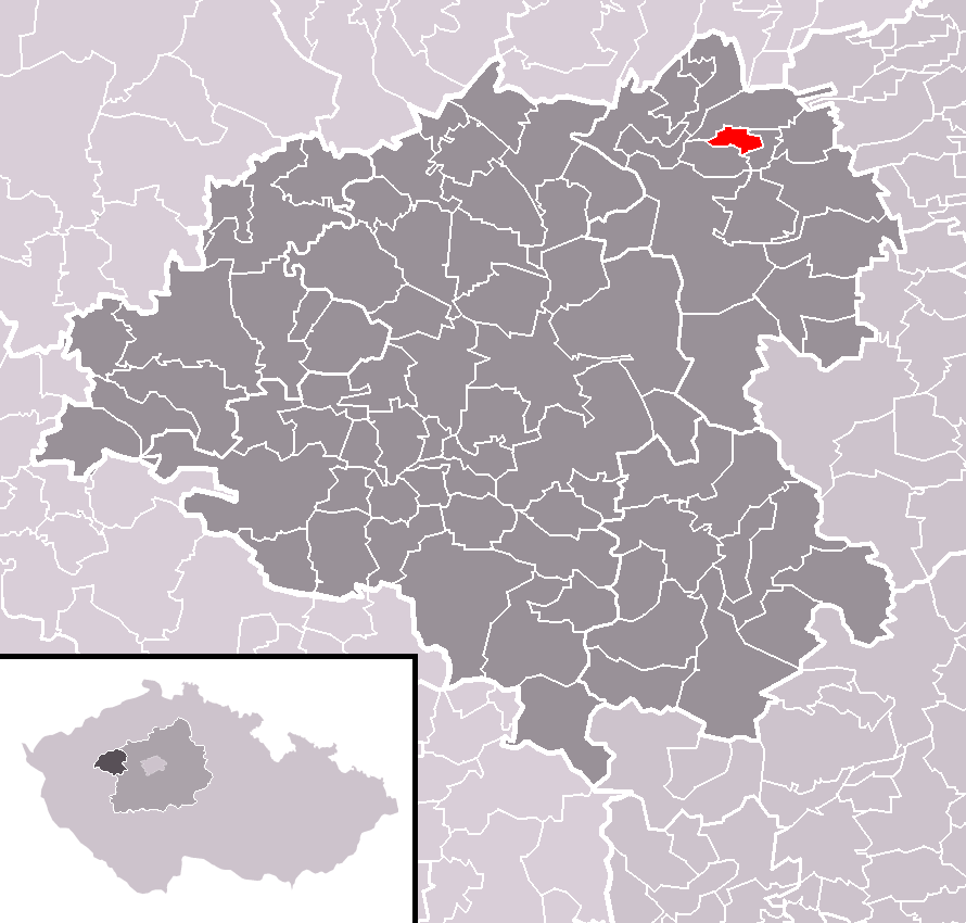 Location of Přerubenice municipality within Rakovník District and (identical) administrative area of Rakovník as a Municipality with Extended Competence.